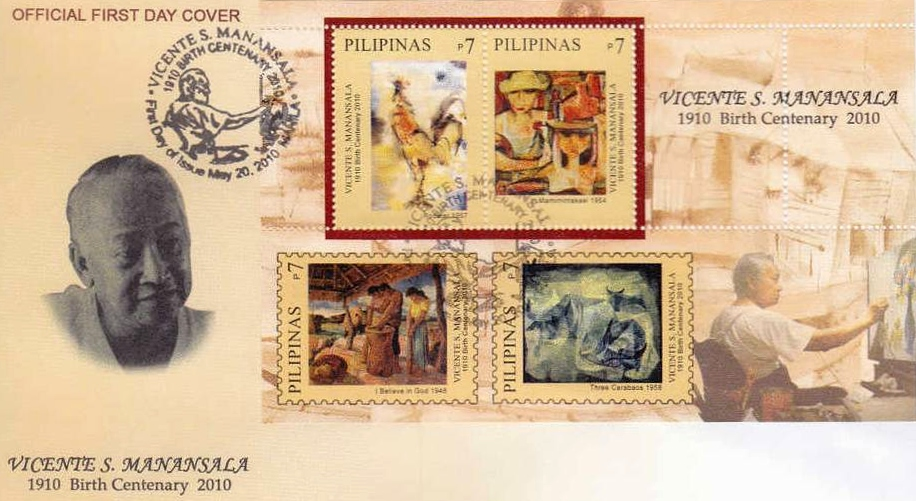 Vicente Manansala Centenary (National Artist)